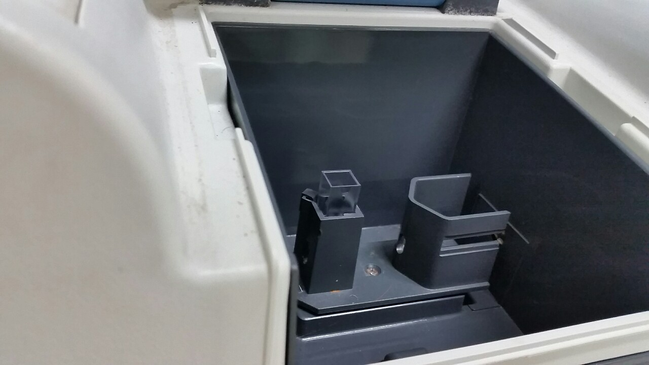 Transparent side direct to light